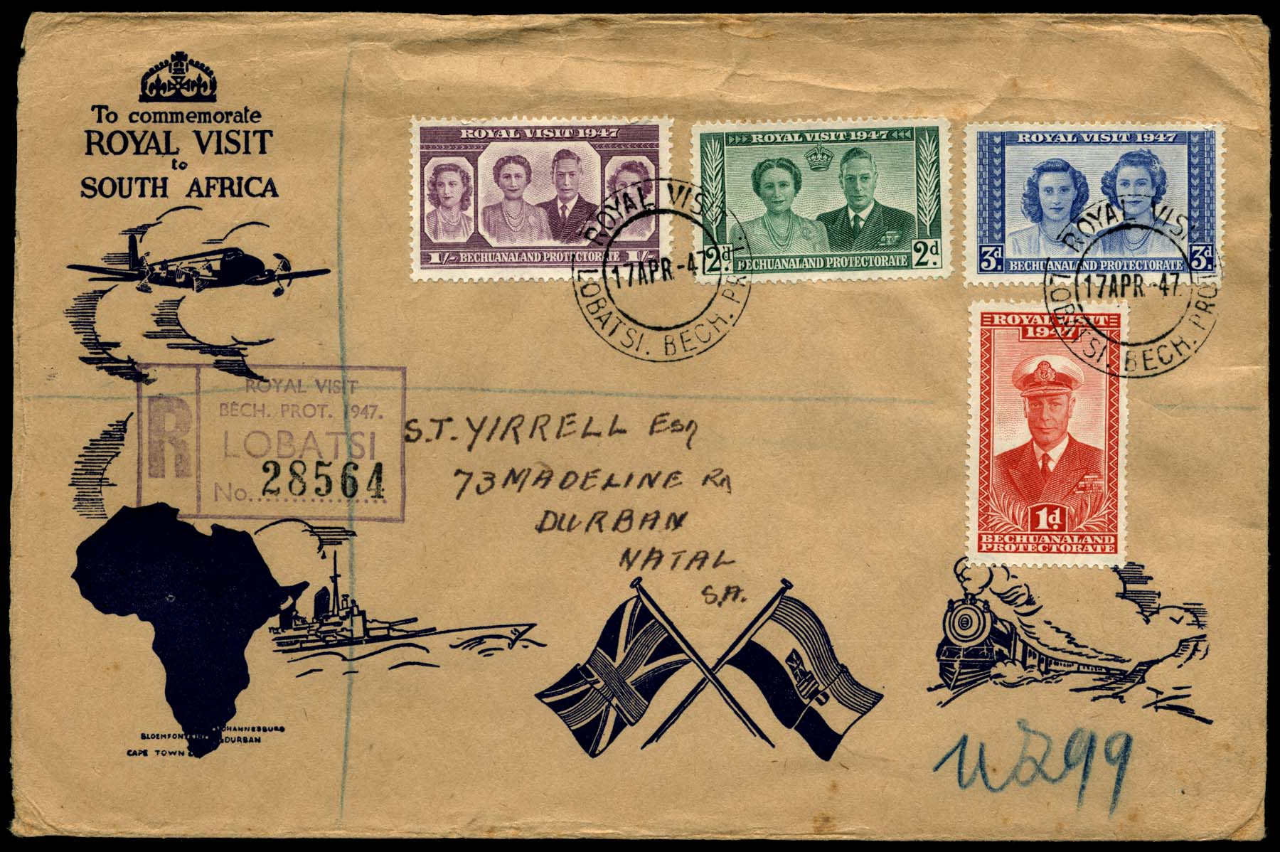 Royal Visit cover from Bechuanaland_Protectorate, 1947